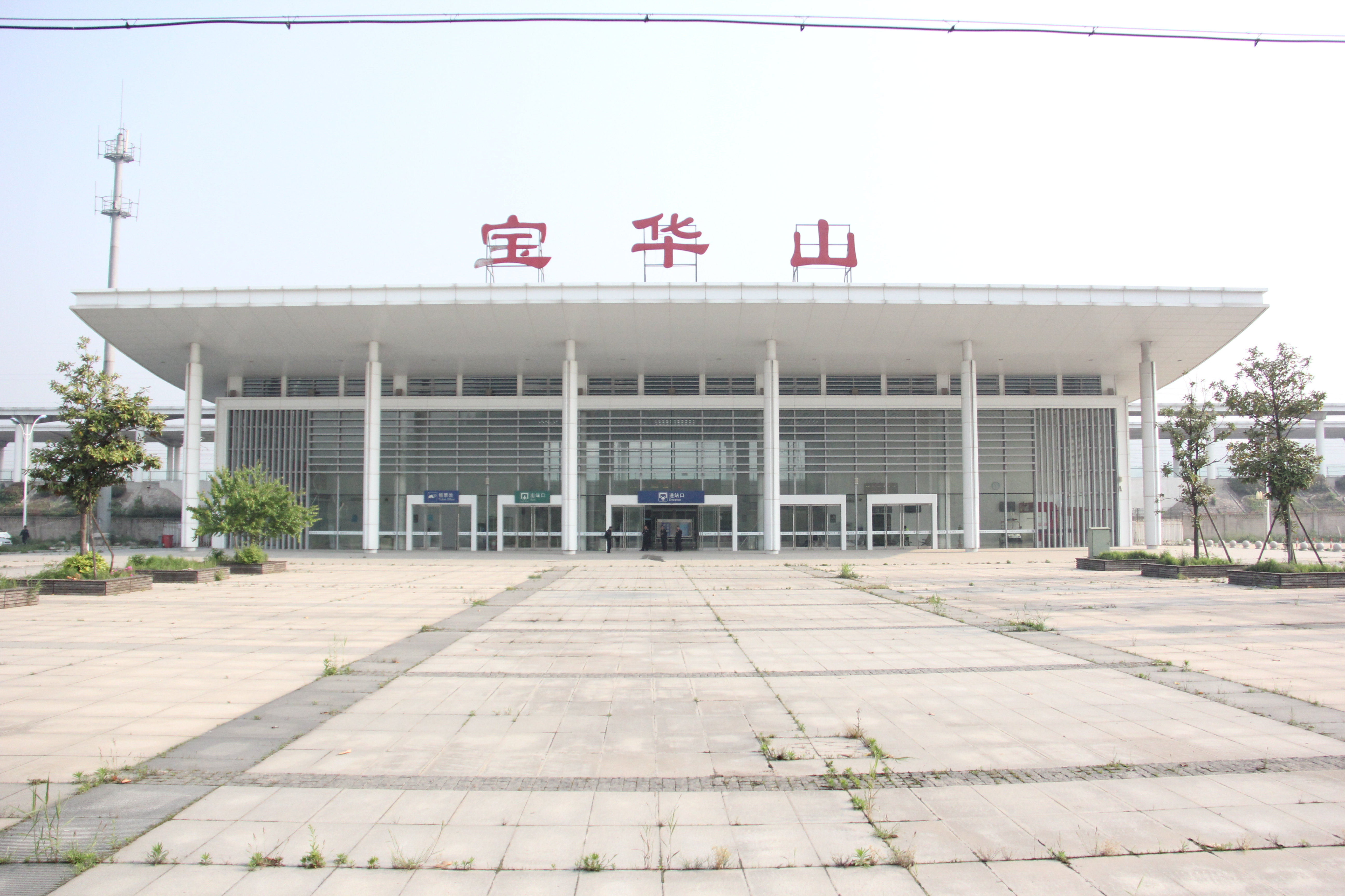 201604 Facade of Baohuashan Railway Station